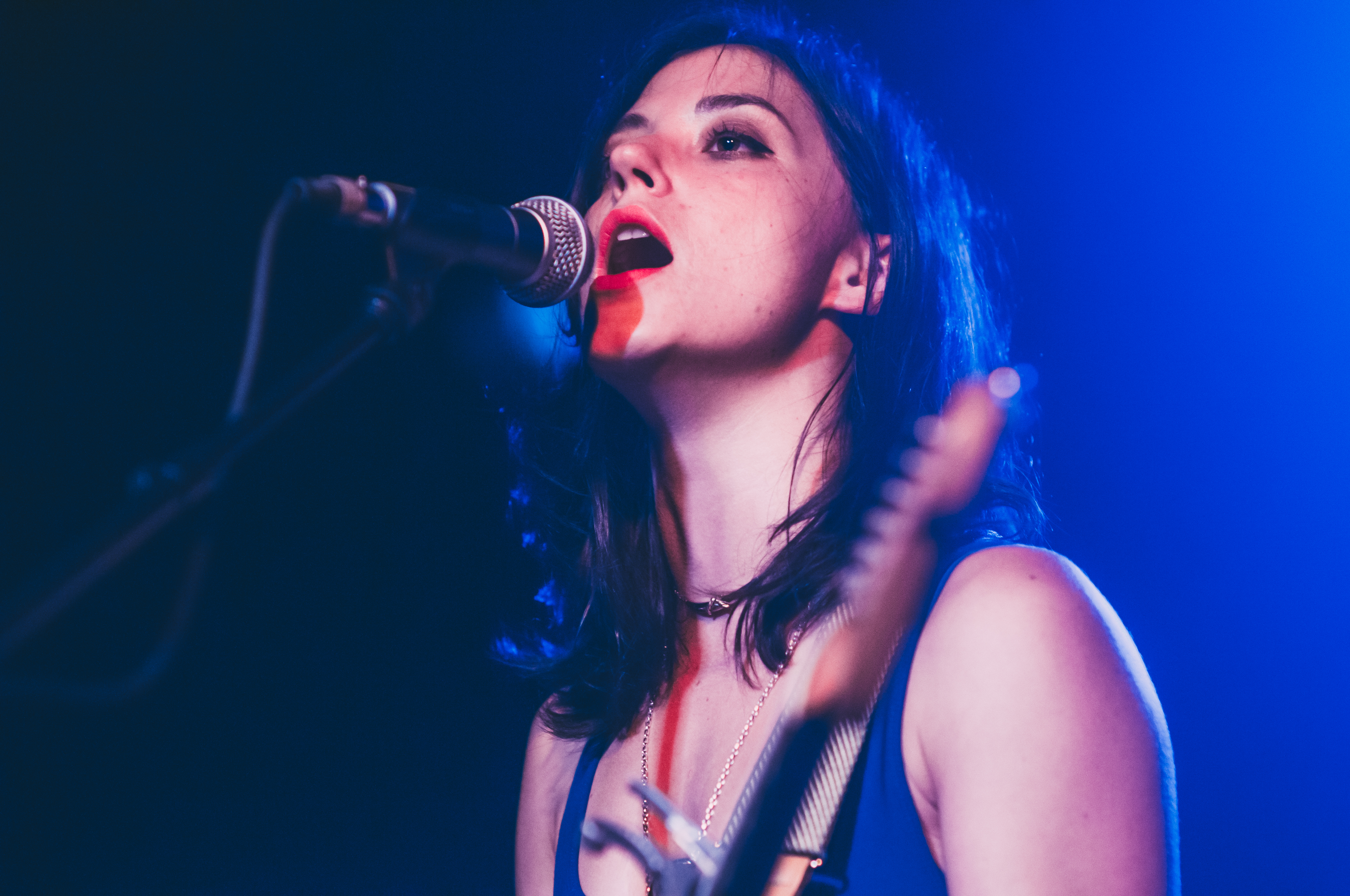 Sharon Van Etten performing in 2012